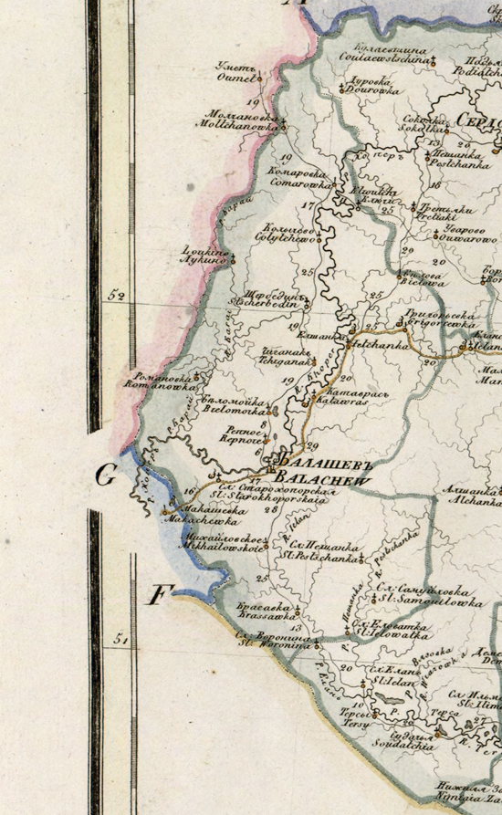 County Map of Balashyov Saratov province, 1821